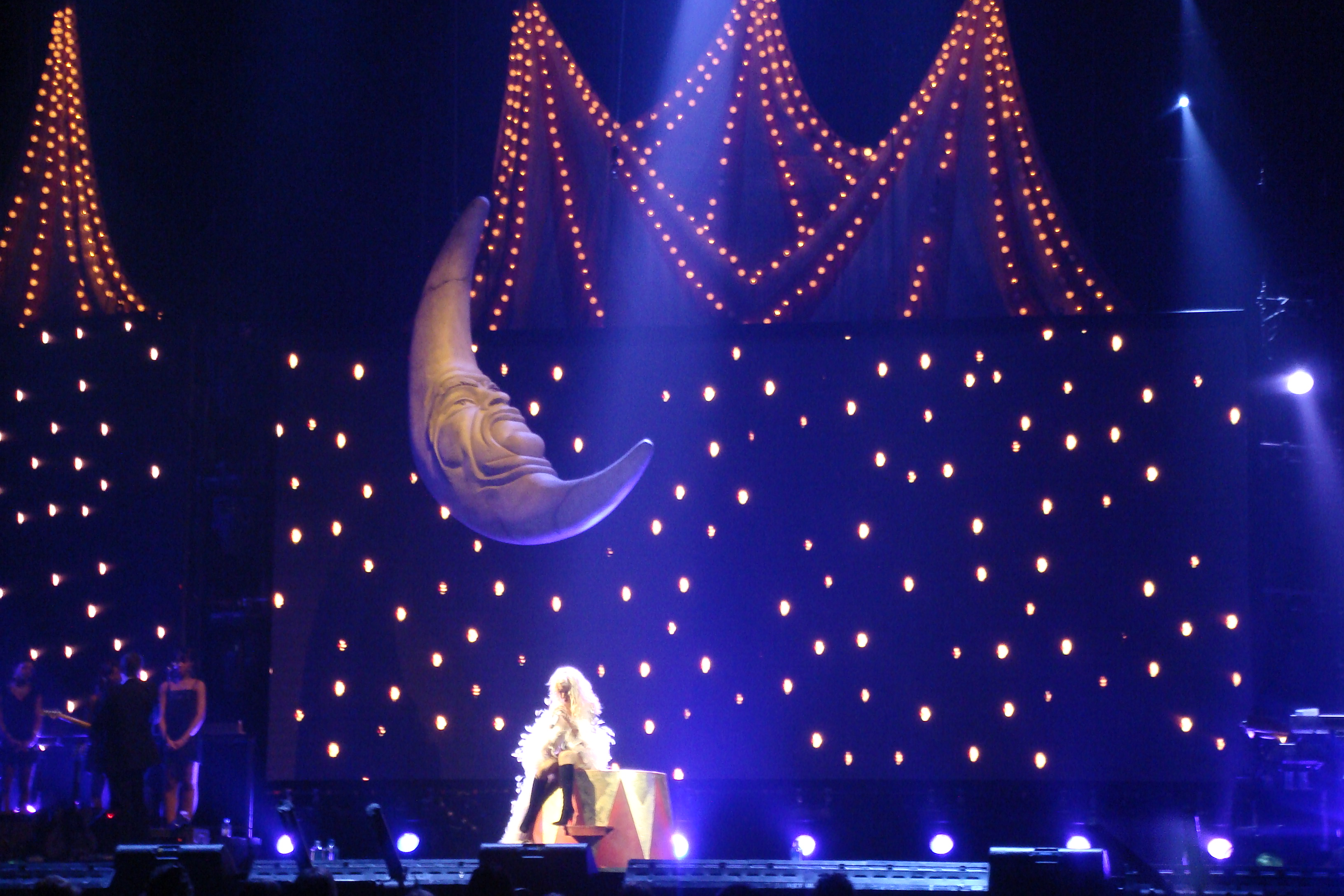 Christina Aguilera sings "Hurt"